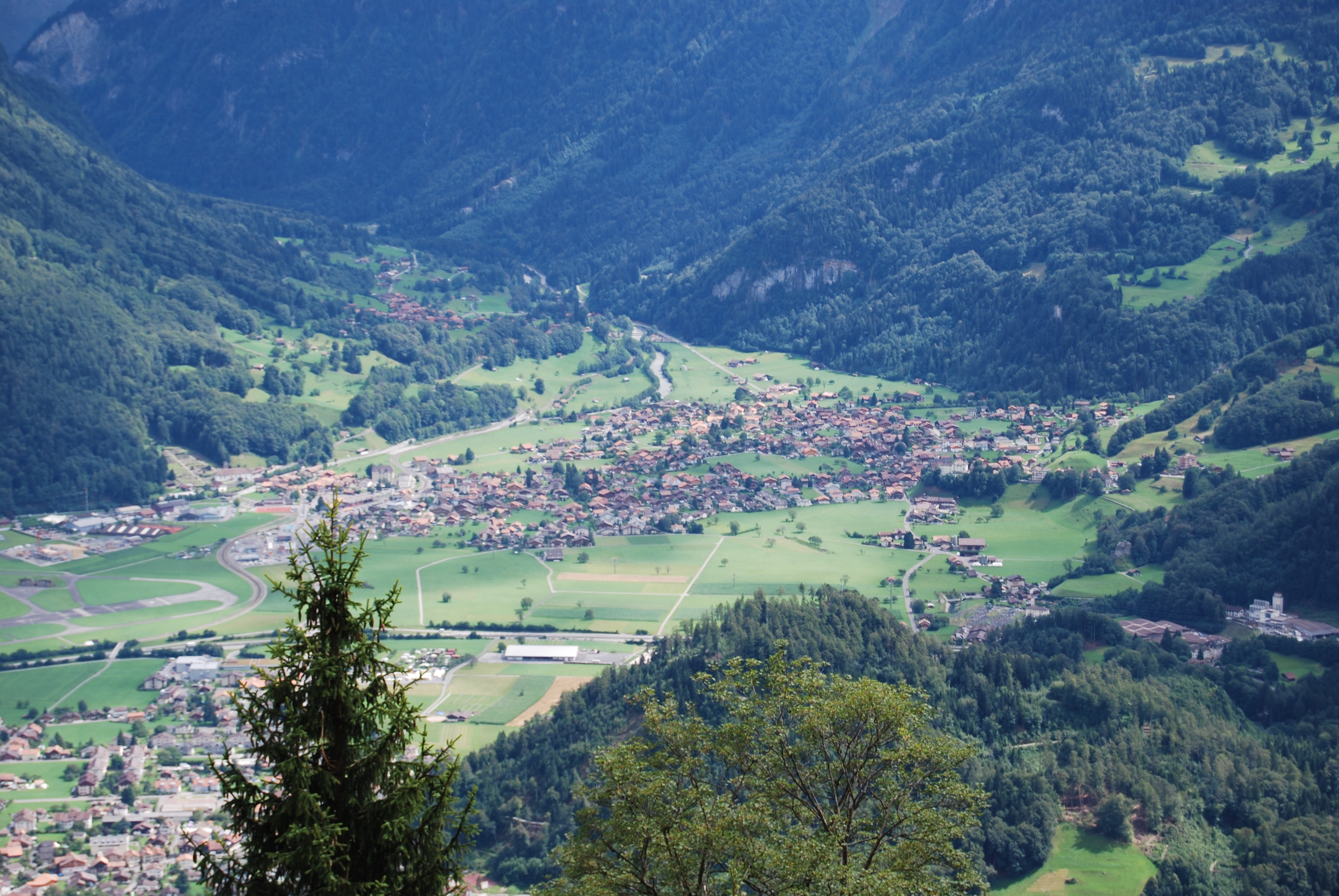 Wilderswil, canton of Bern, Switzerland